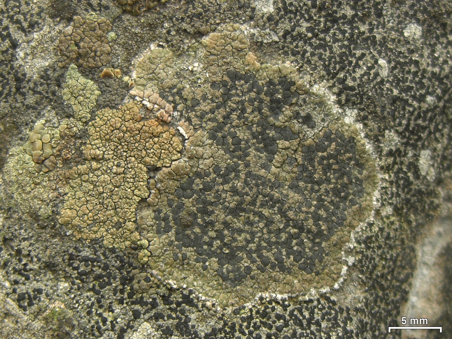 On shaded basalt, Turnbull NWR, eastern Washington, 26 Oct 2014, Hollinger 6775.